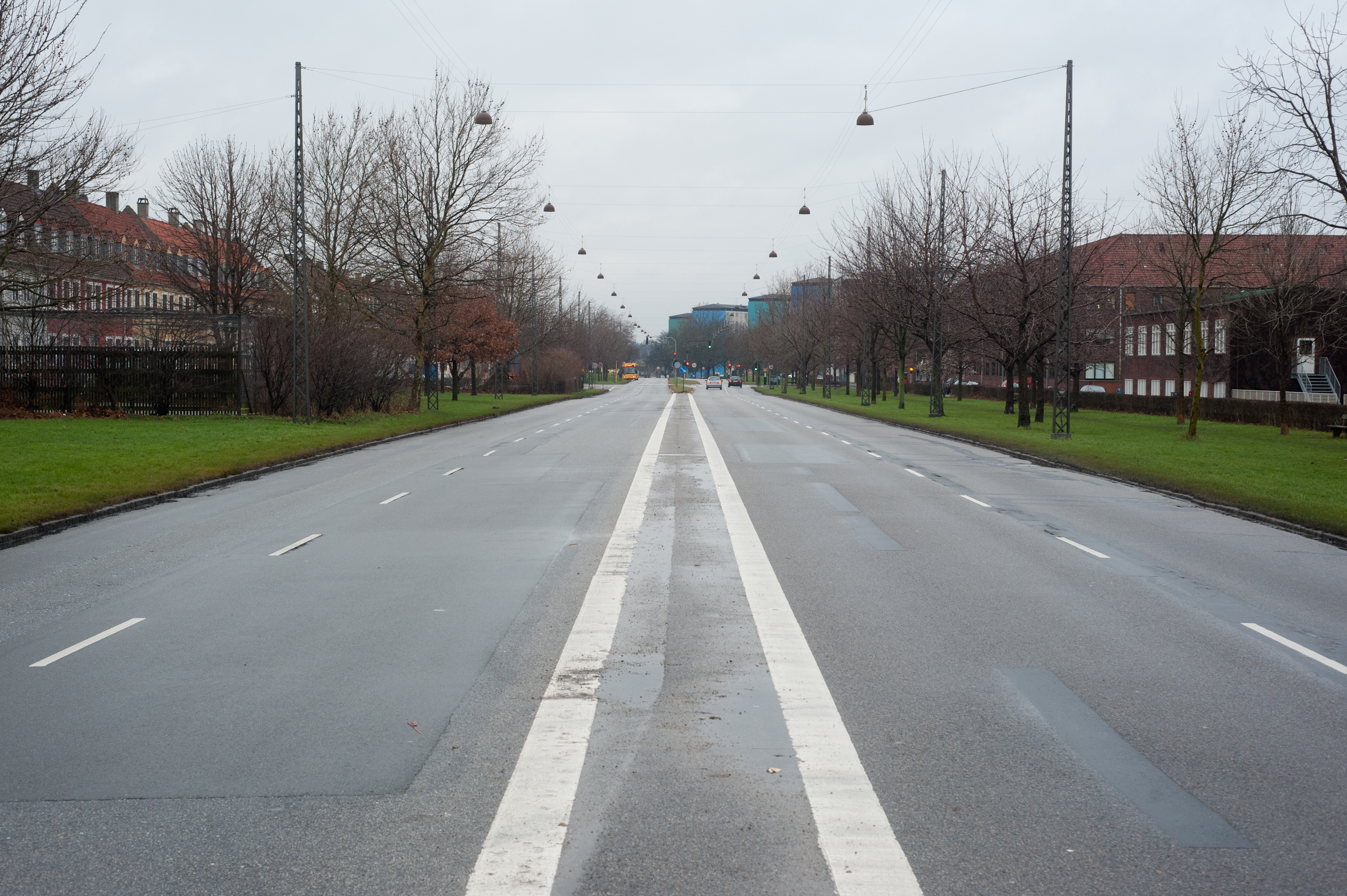 Lersø Parkallé in Copenhagen, Denmark.